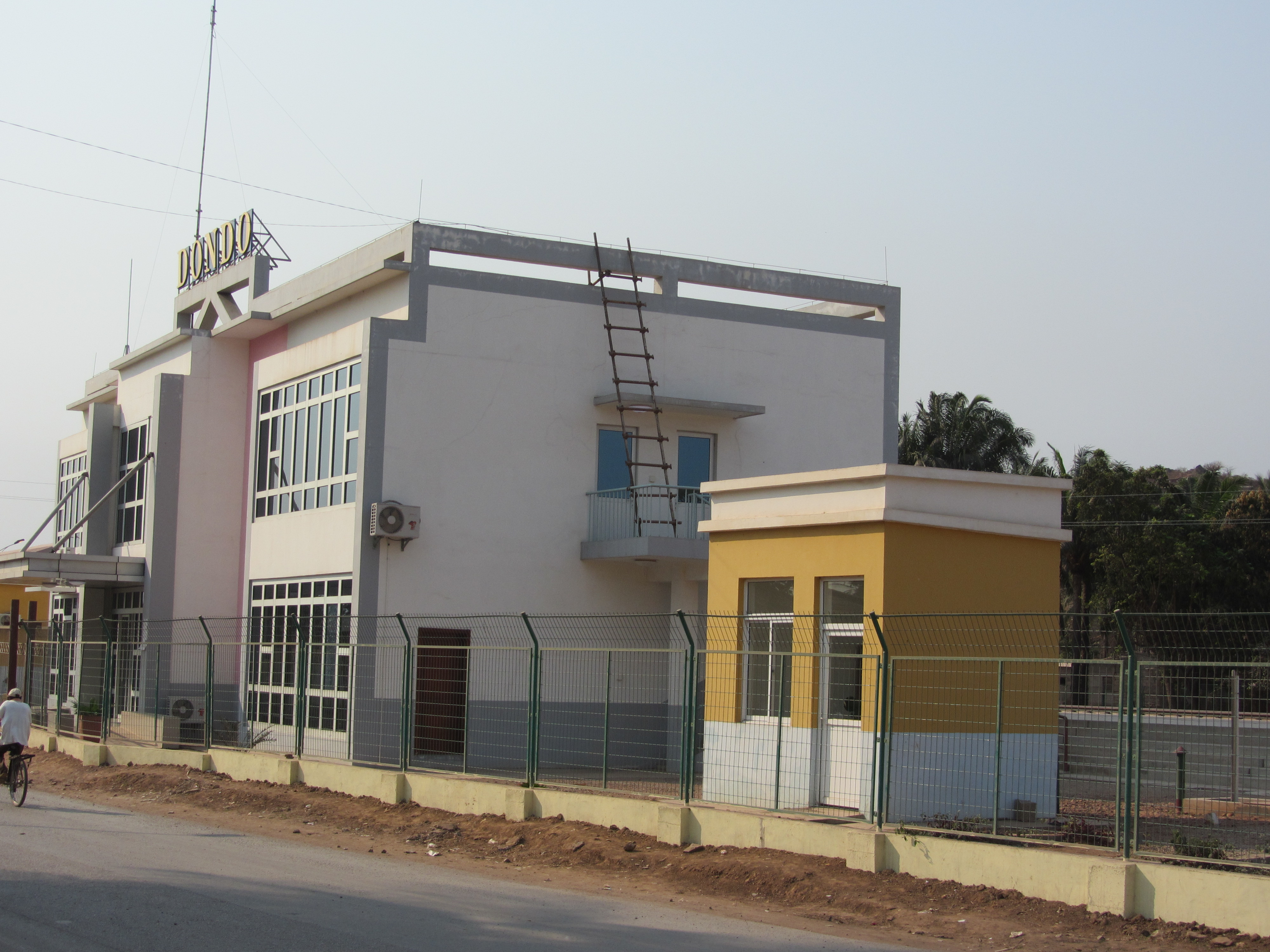 New railway station at Dondo, prov. Cuanza Norte, Angola